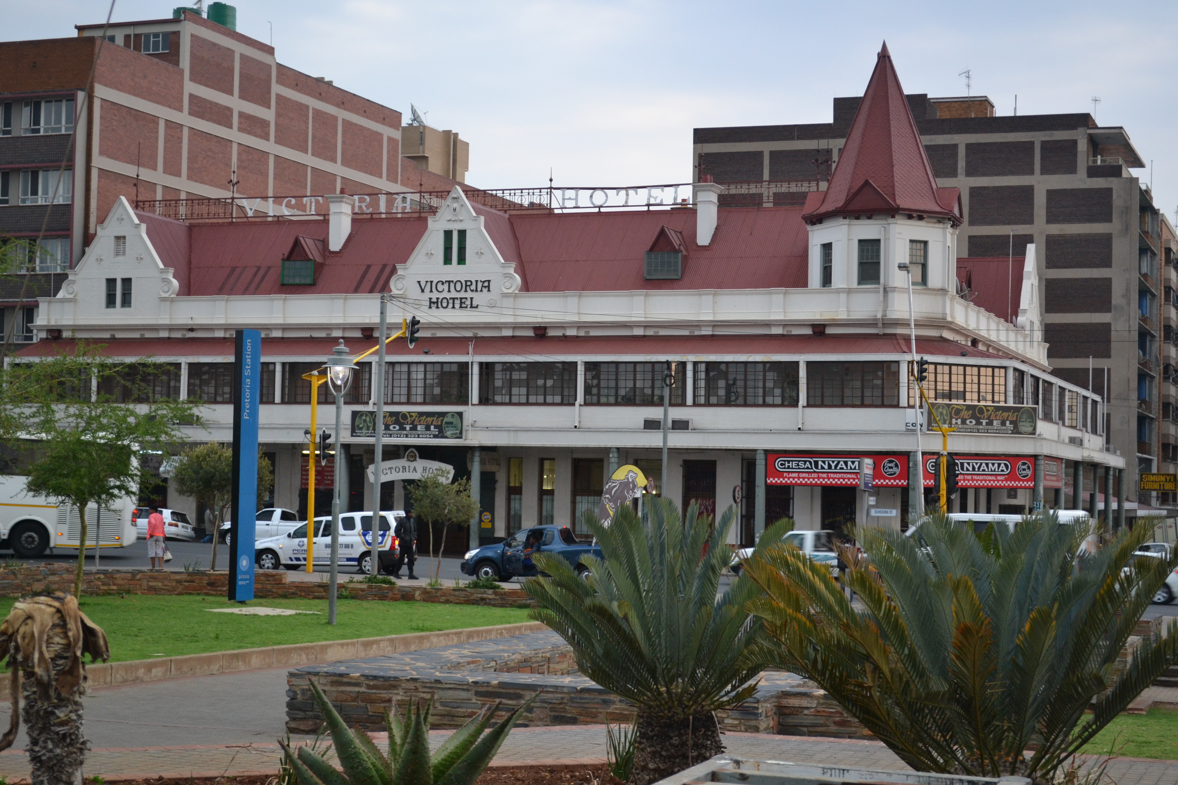 Railway Station Scheiding Street Pretoria This media shows a South African Protected Site with SAHRA file reference 9/2/258/0082 .